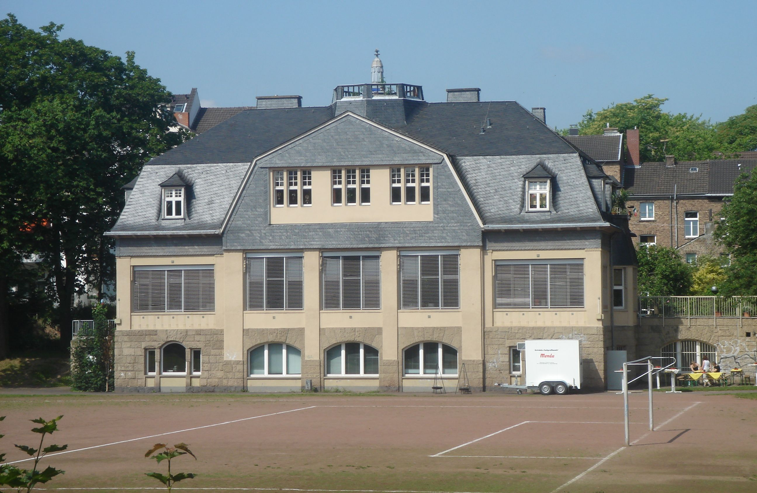 House of youth in Bonn-Kessenich, Germany.